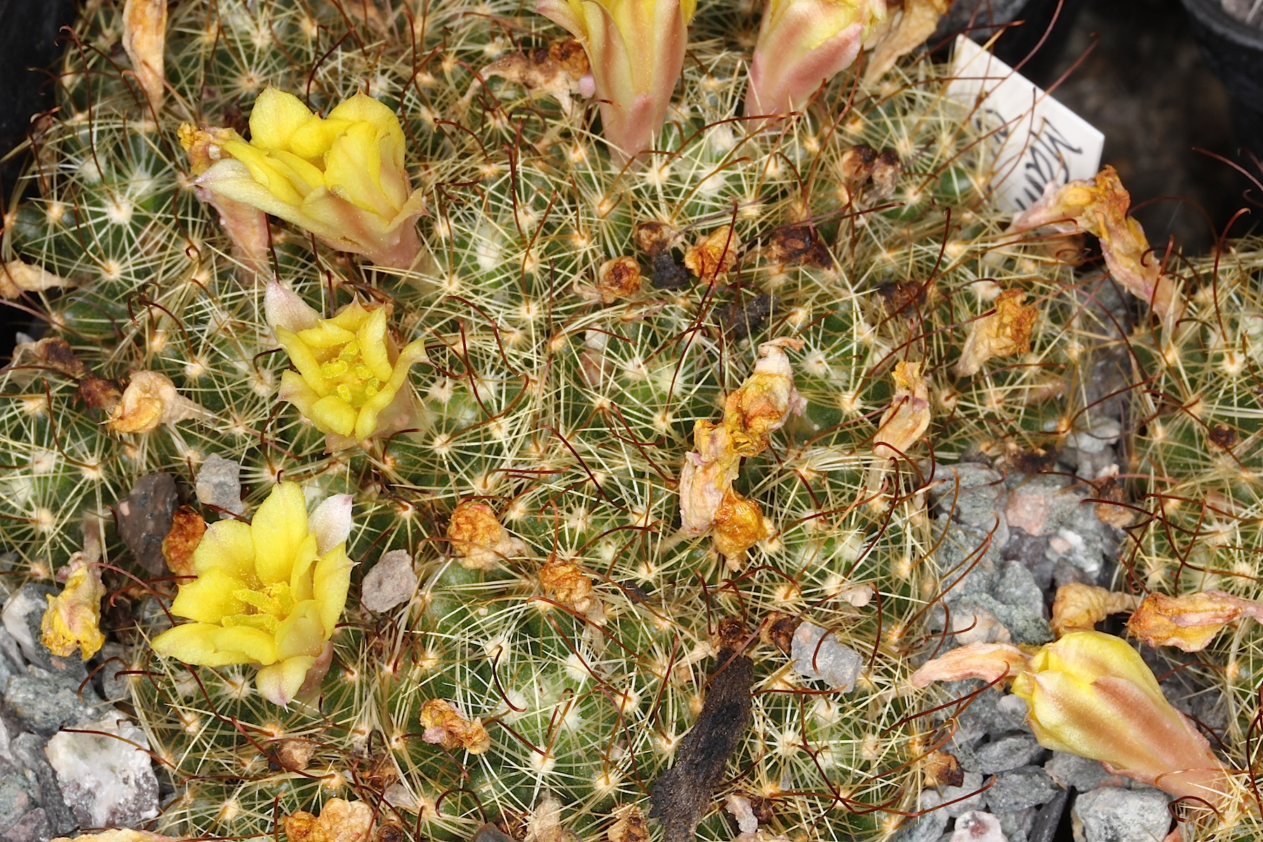 Mammillaria surculosa